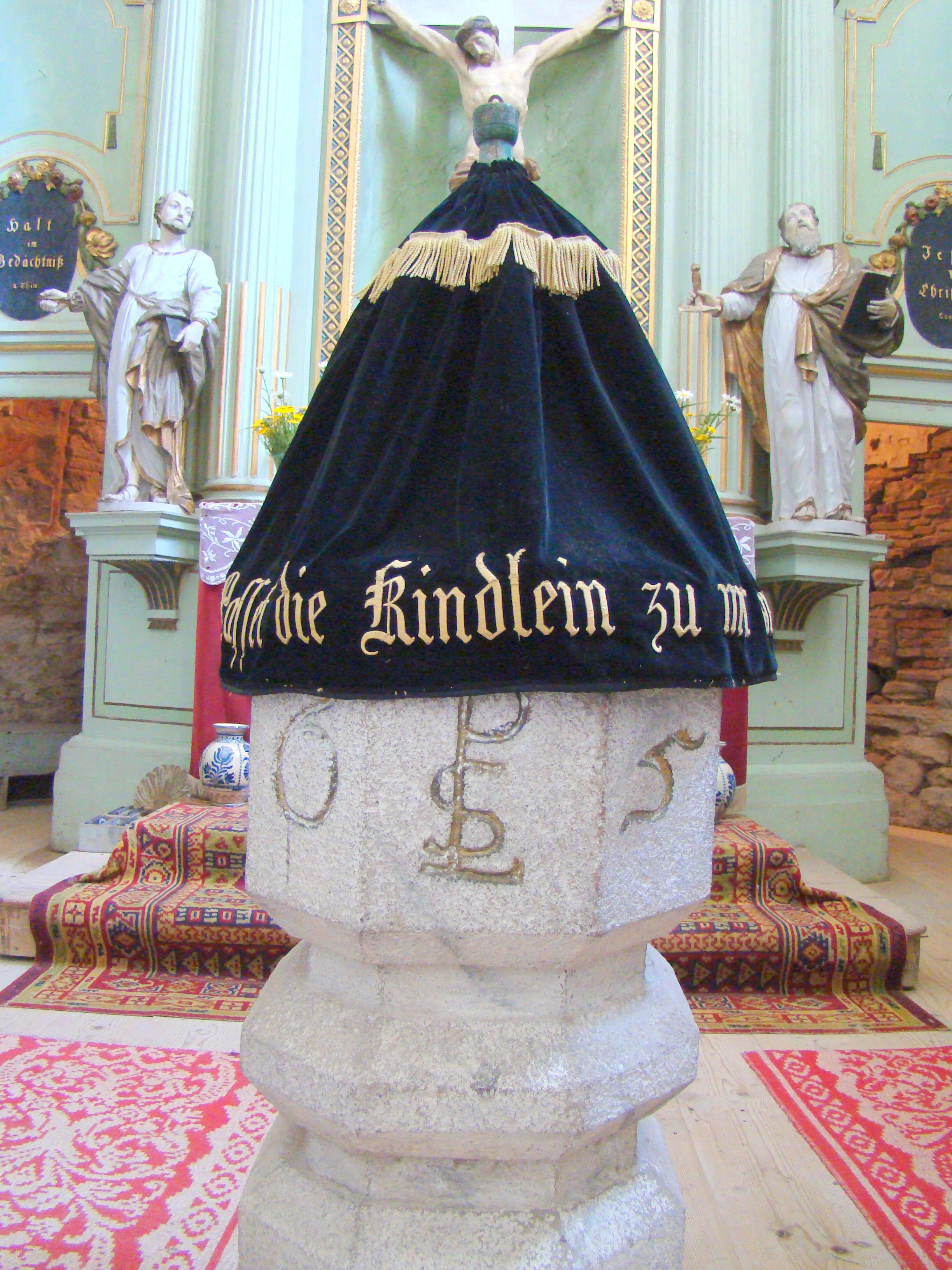 Fortified church in Bunești, Brașov County, Romania